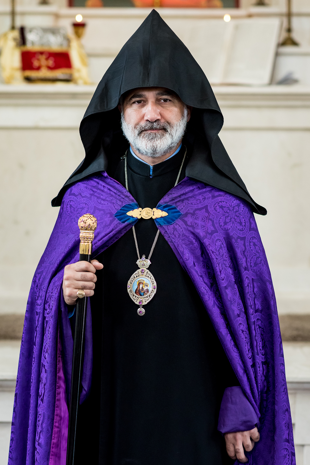 Bishop Marcos Hovhannisyan, the Primate of the Armenian Diocese of Ukraine.